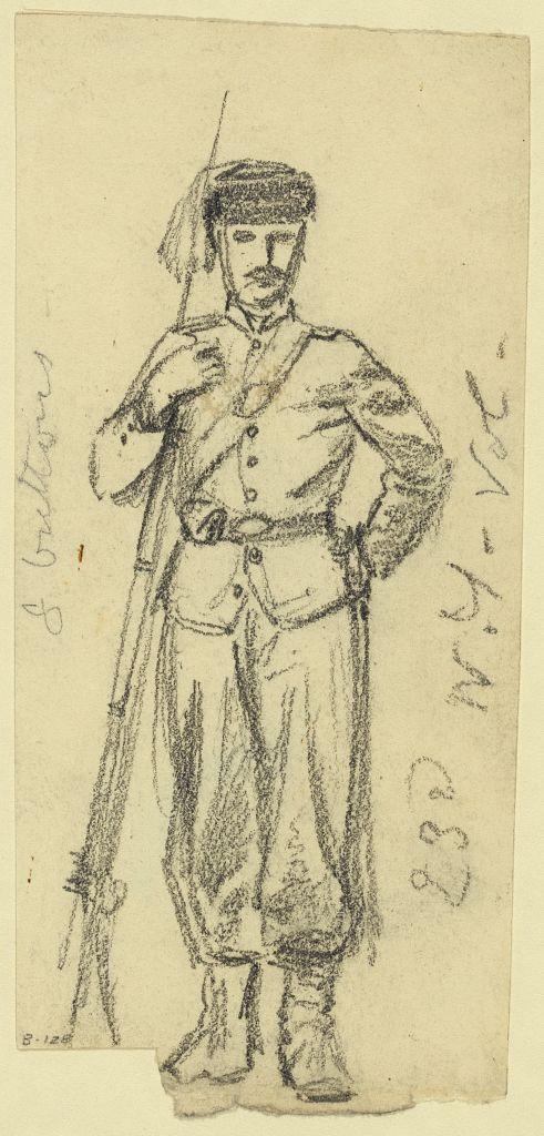 23rd New York Volunteer. 1 drawing on cream paper: pencil; 11.2 x 5.2 cm. (sheet).